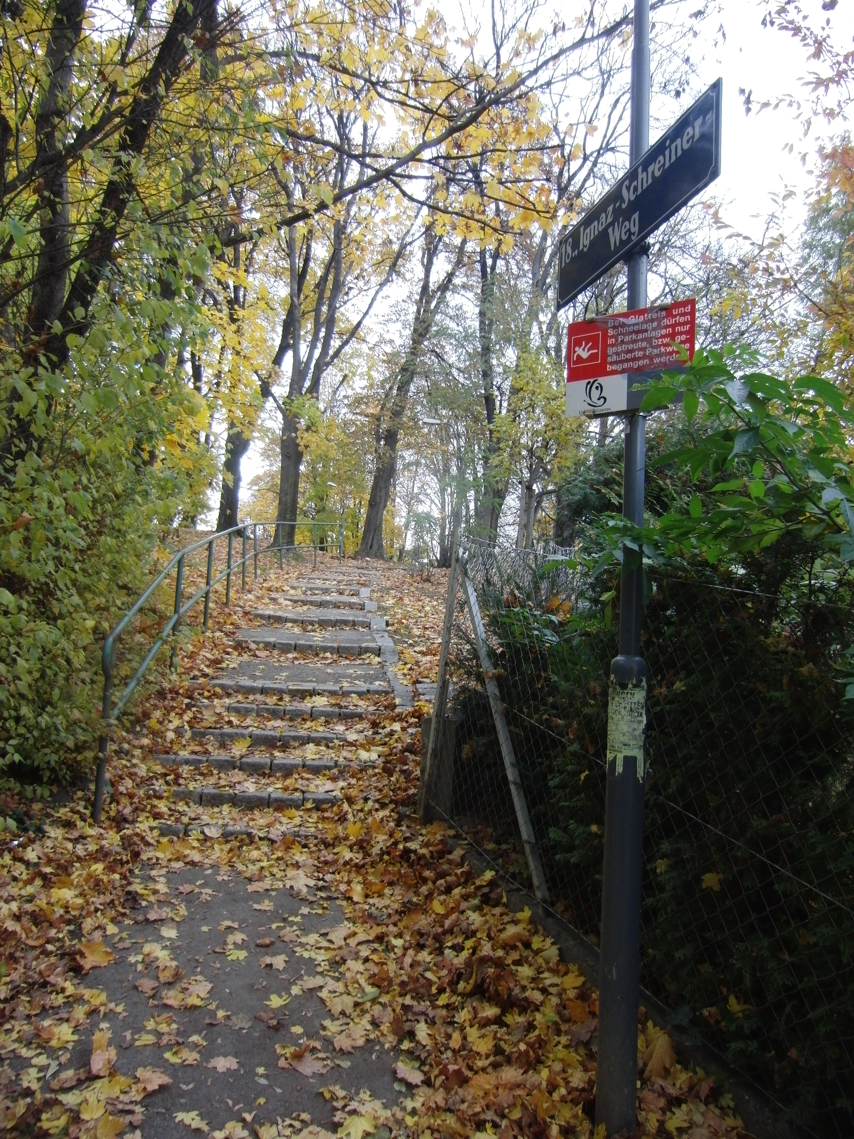 Ignaz-Schreiner-Weg in 1180 Vienna, Austria